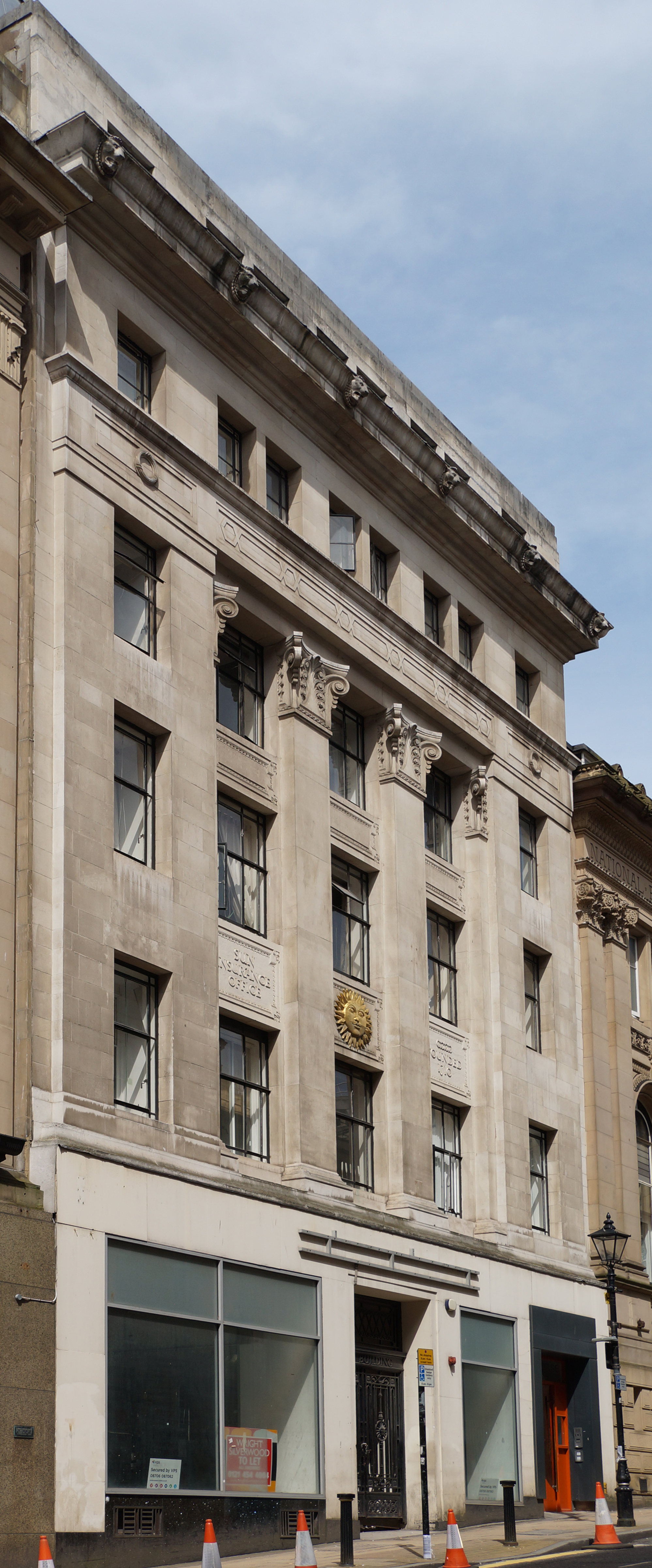 Sculpture of sun and lettering on the Sun Insurance building, 10 Bennetts Hill, Birmingham, England by local sculptor William Bloye, 1927-8. Building designed by S. N. Cooke, 1927.